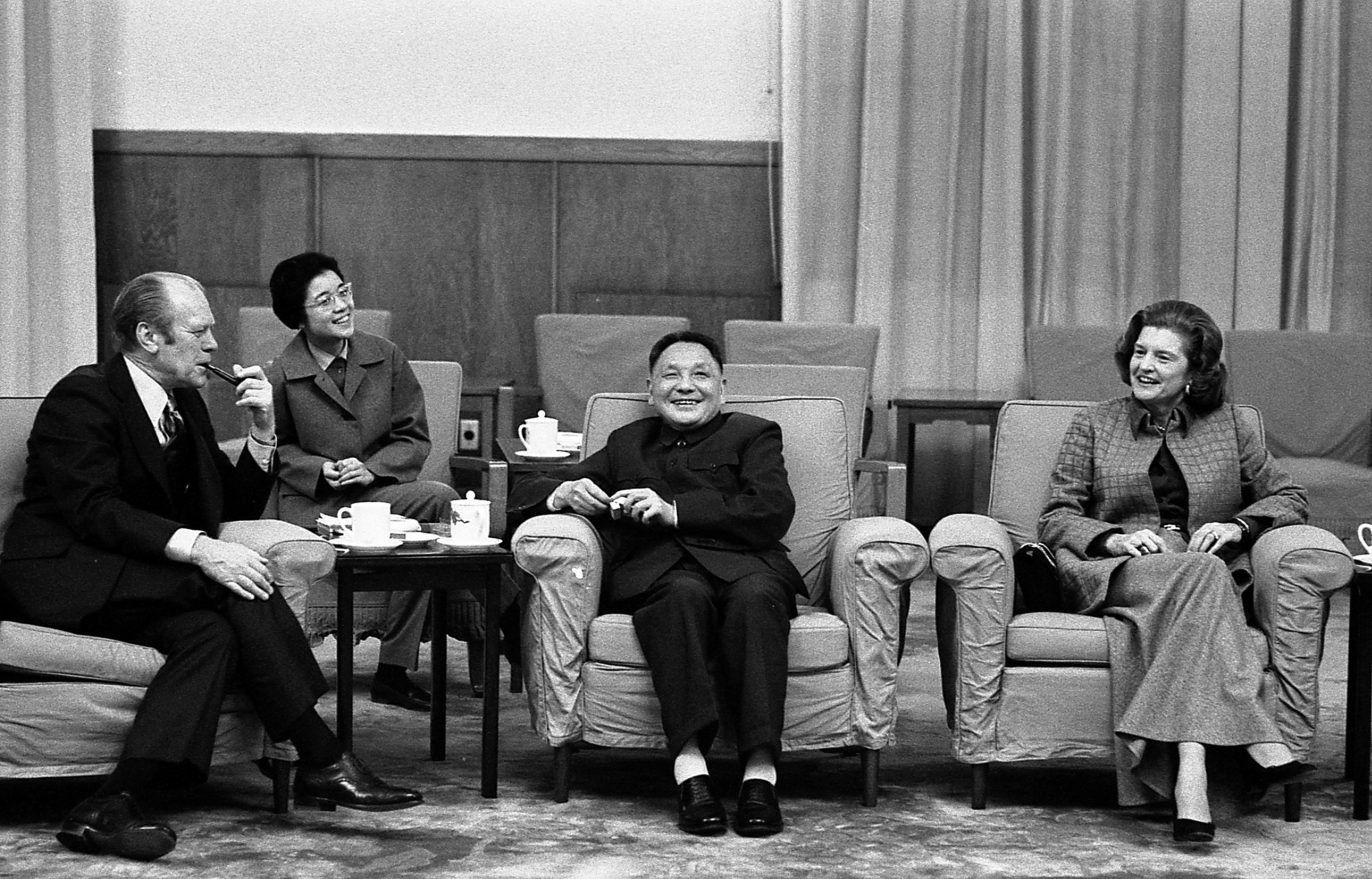 President and Mrs. Ford, Vice Premier Deng Xiao Ping, and Deng’s interpreter have a cordial chat during an informal meeting in Beijing, China. ID #A7598-20A.